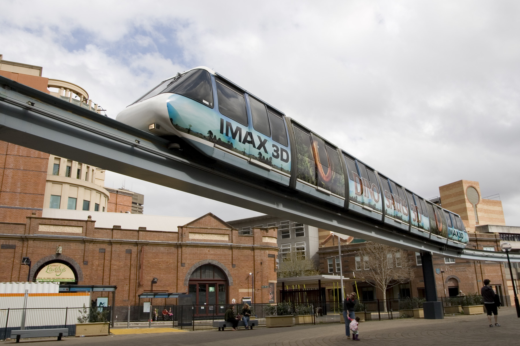 Monorail near Paddy's Market